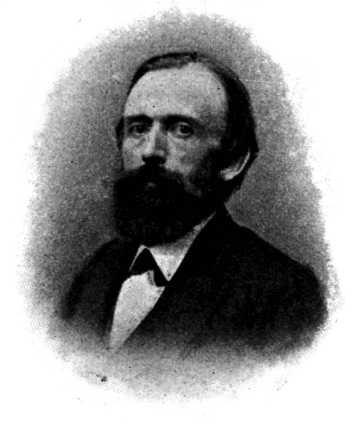 Carl Maria Ferdinand Finkelnburg